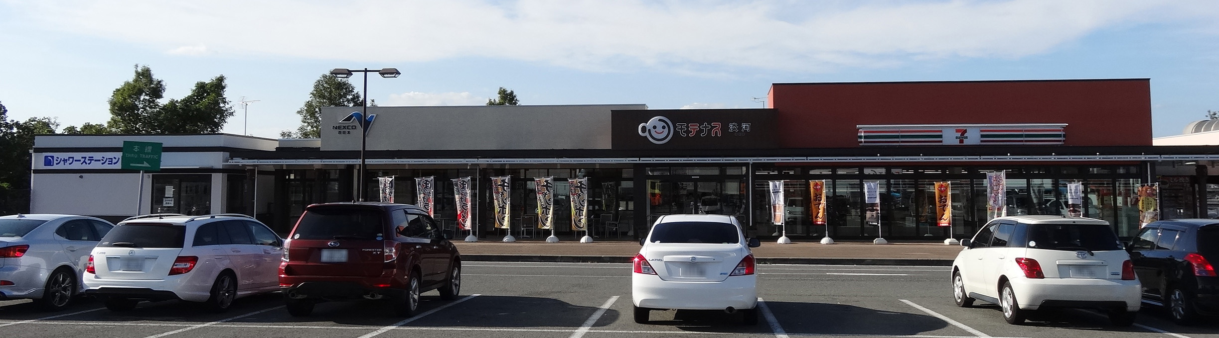 Sanyo Expressway Ogo Pakingarea